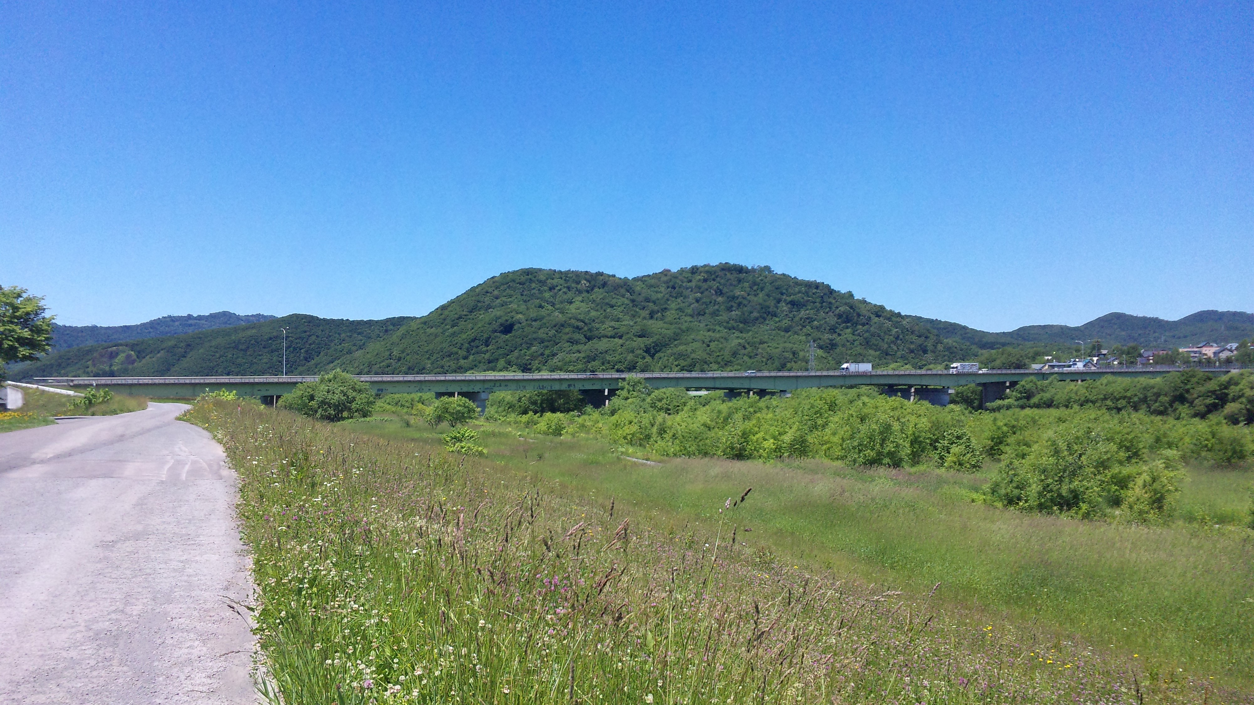 Chikabumiohashi Bridge, in Asahikawa, Hokkaido, Japan